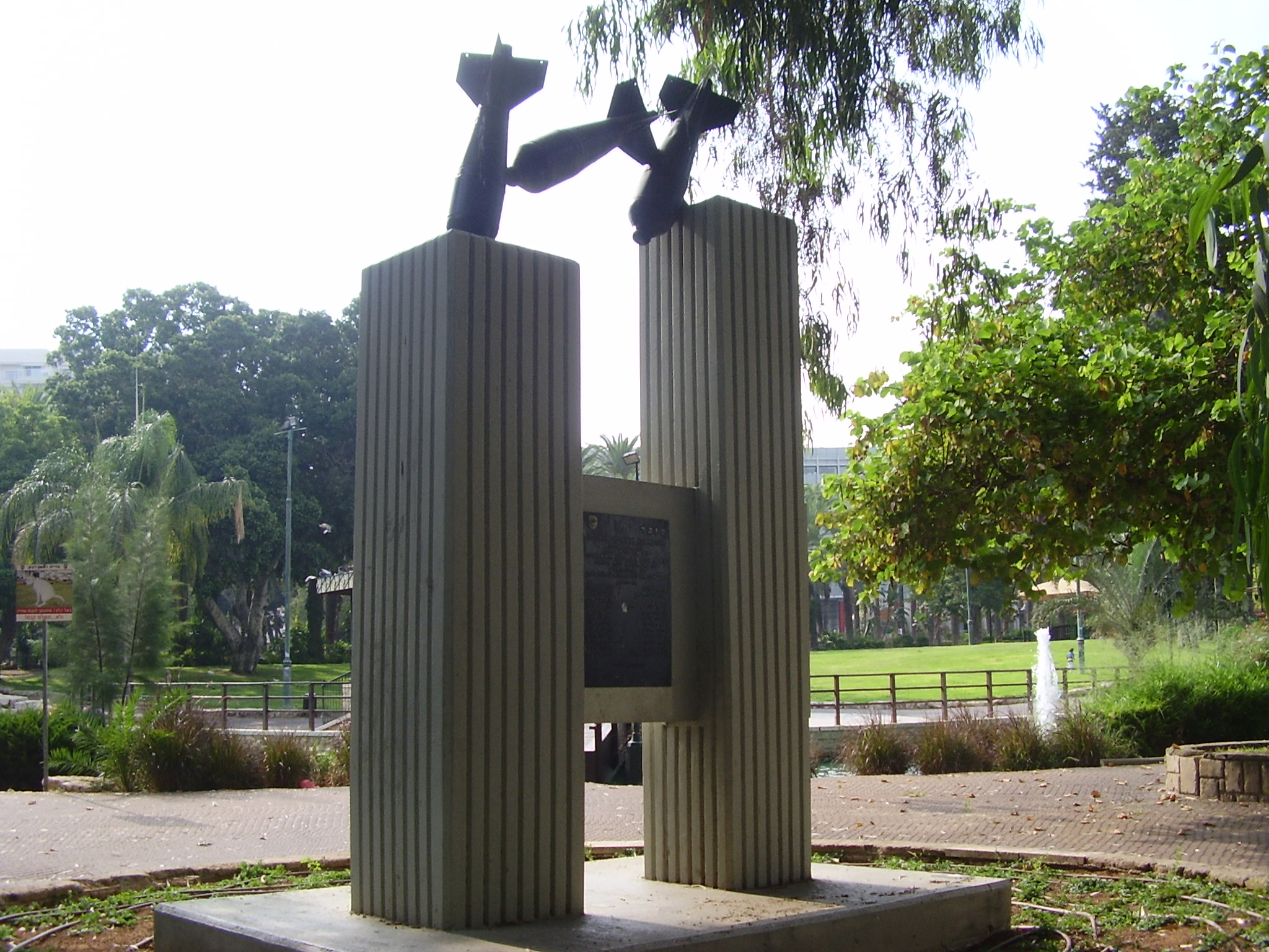 memorial to the victims of the bombing by egyptian planes on rishon lezion in the independence war - 3/6/1948